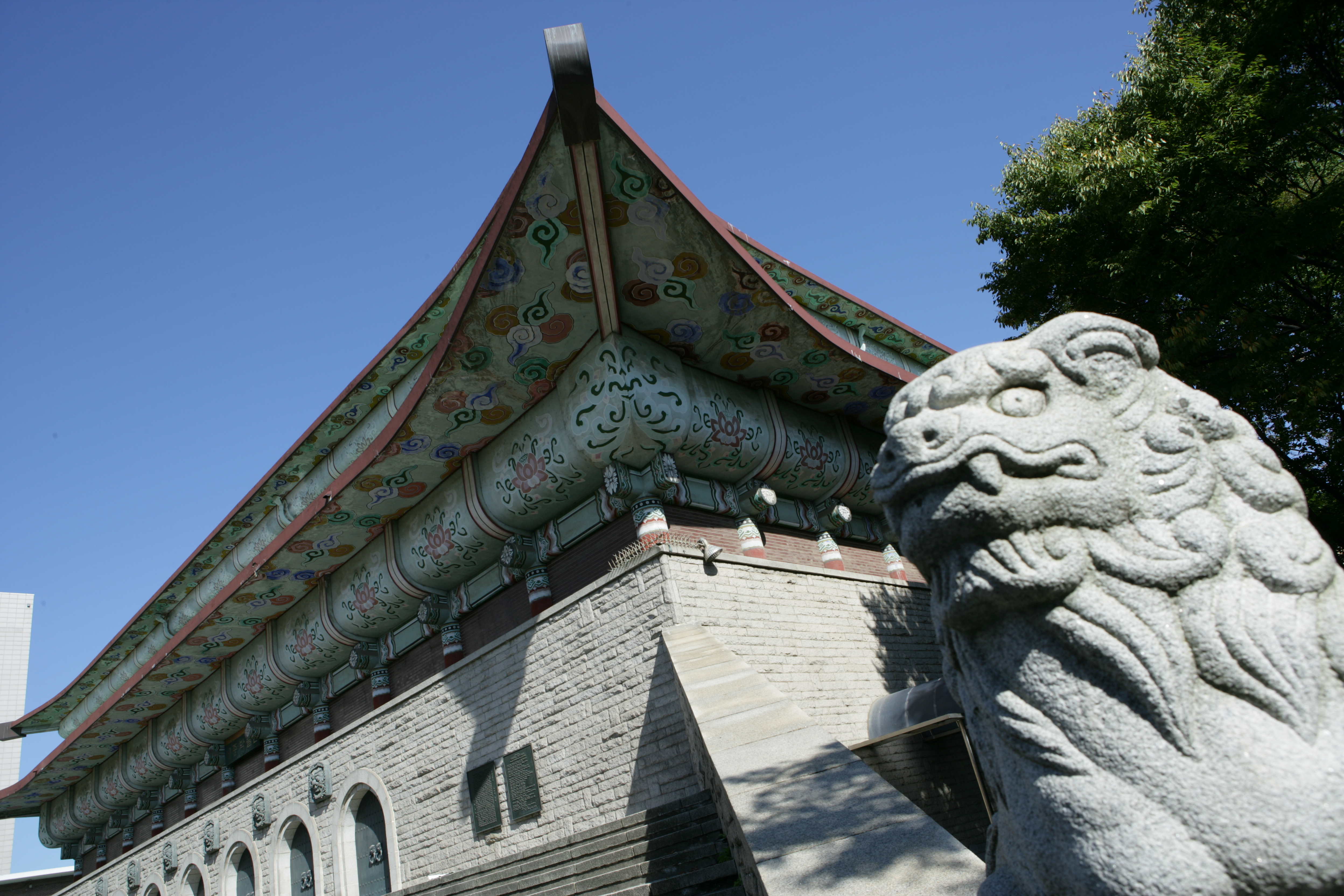 Sejong Museum (Roof)